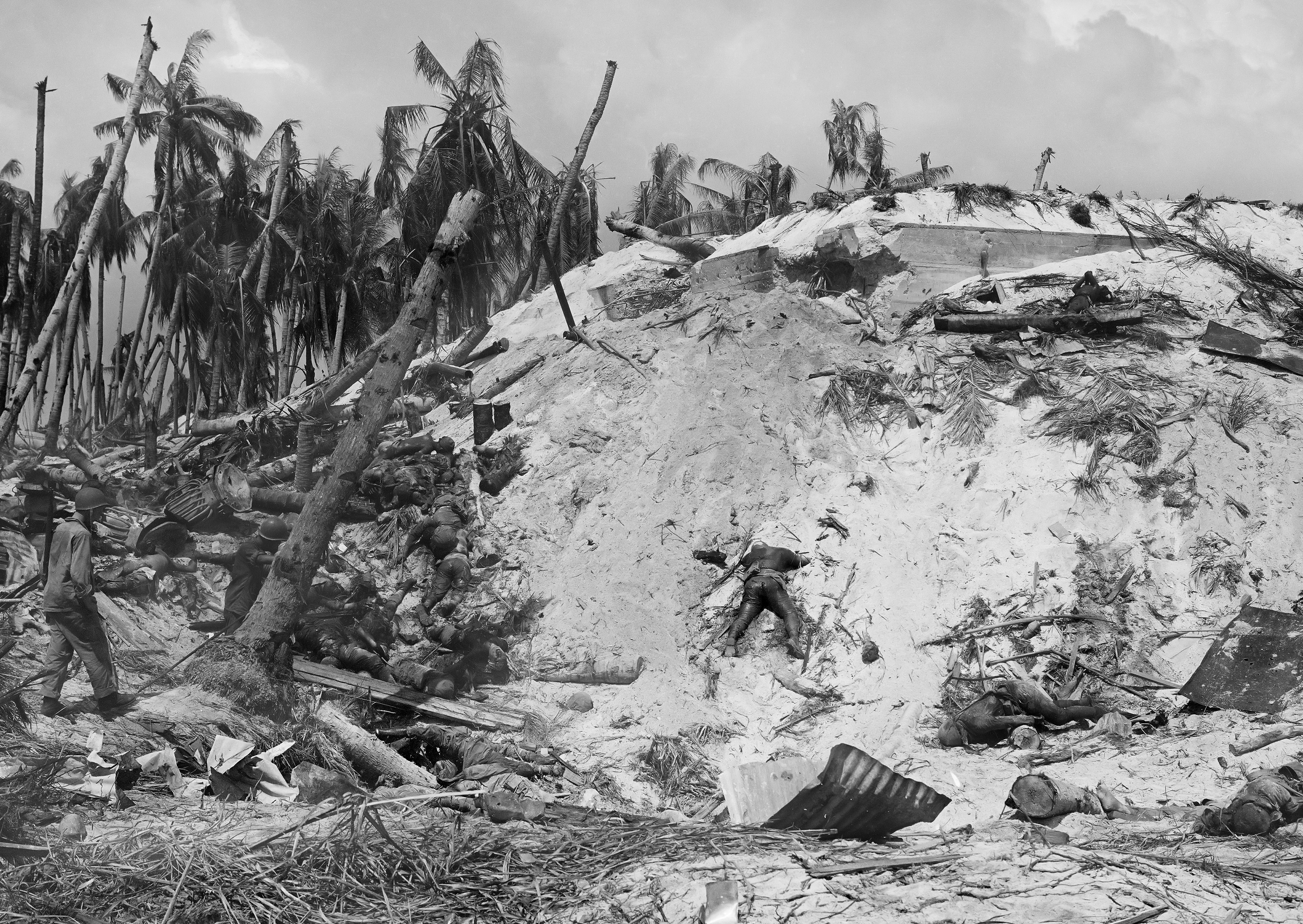 "Tarawa Island", a photograph of dead Japanese soldiers at a destroyed pillbox following the Battle of Tarawa. This photograph won the 1944 Pulitzer Prize for Photography (sharing the honor with "Homecoming").